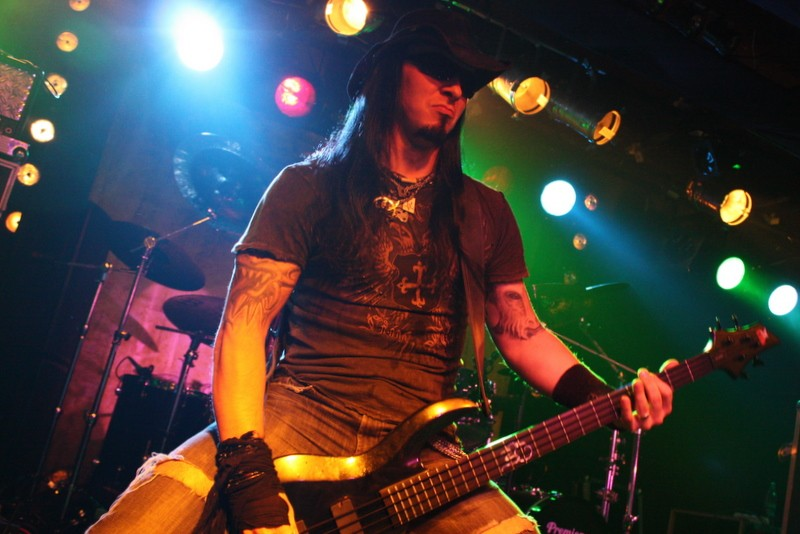 Black River, Lublin, Graffiti, 10.12.2008